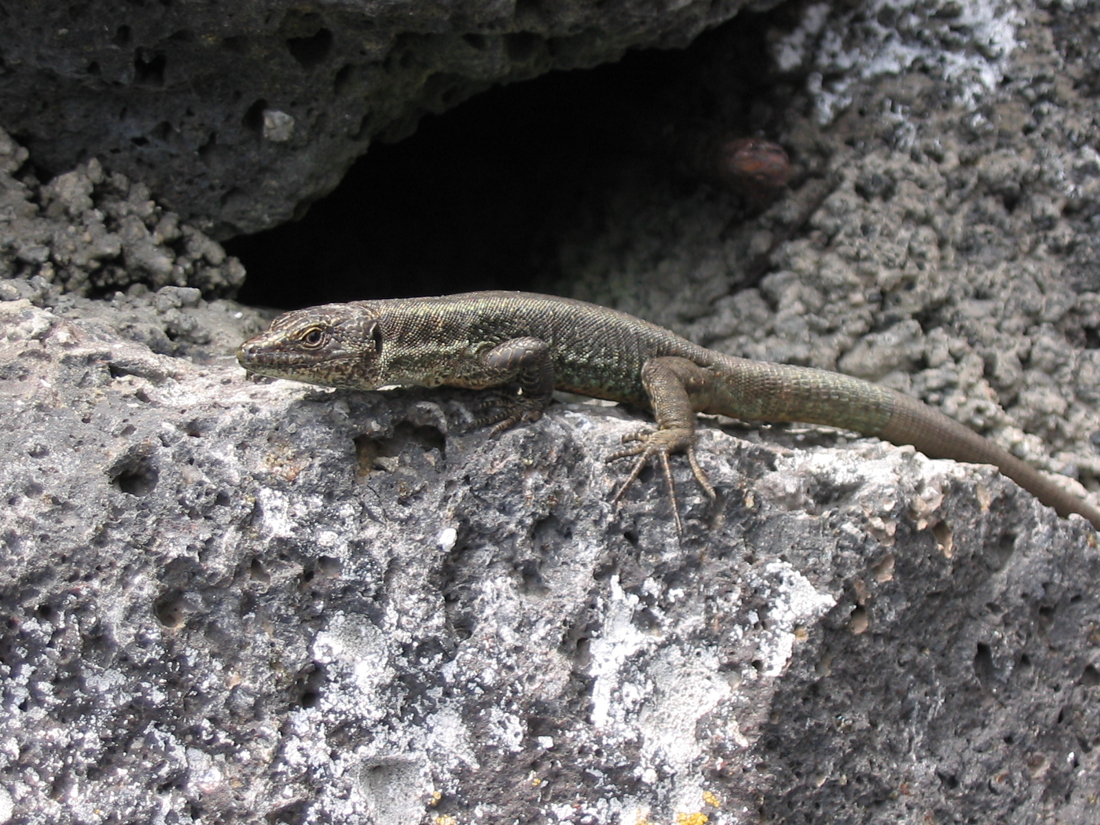 Madeira Wall Lizard, Teira dugesii, male specimen, at a dry stone wall near Urzeline, Sao Jorge, Azores